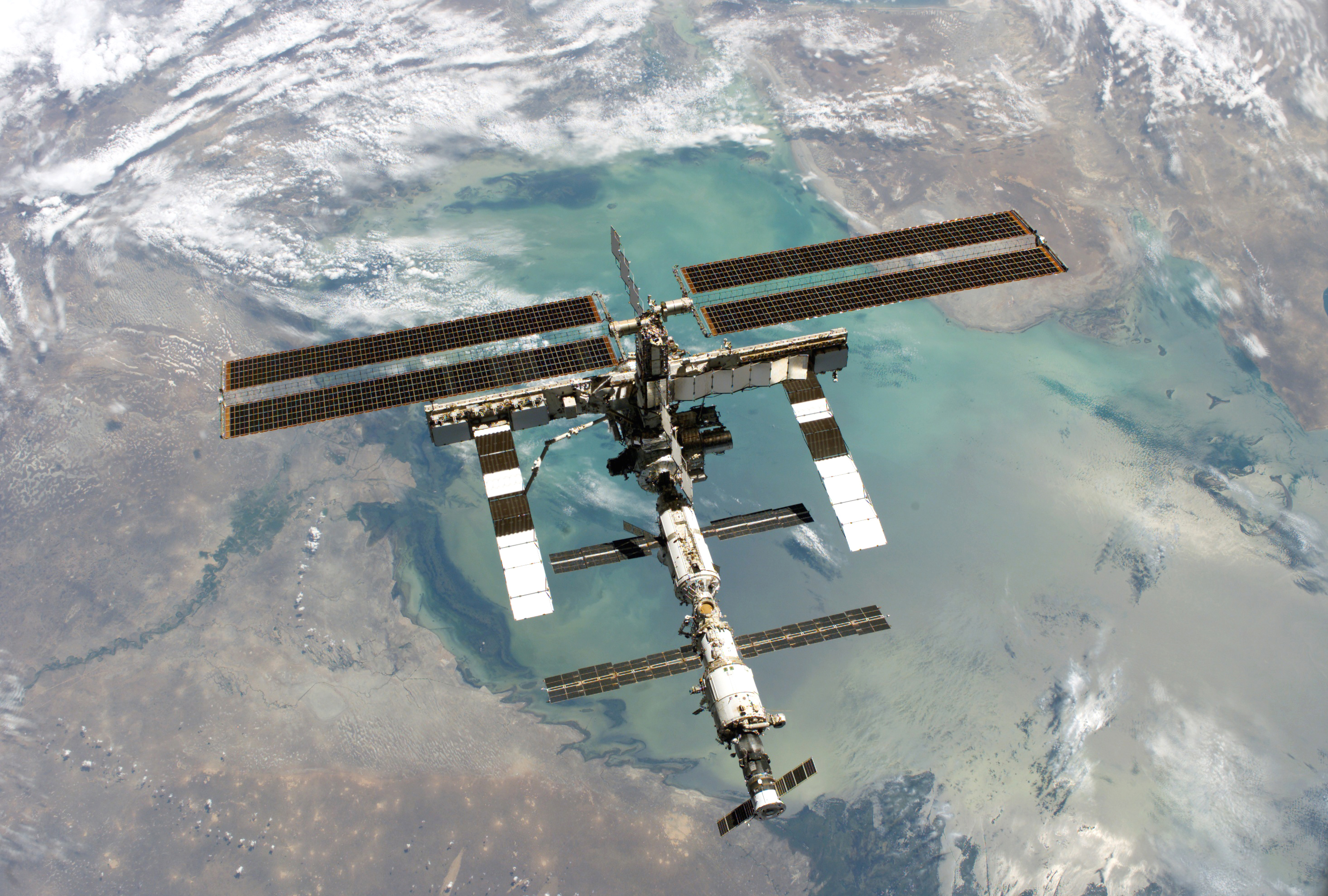 ISS photo taken from shuttle Discovery in August 2005. Original description: "Backdropped by a colorful Earth, this full view of the International Space Station was photographed from the Space Shuttle Discovery during the STS-114 Return to Flight mission, following the undocking of the two spacecraft." The upper part of the Caspian Sea is visible in the background (the Volga delta is the dark area in the lower right. Editing: Brightness and contrast was enhanced, saved 85% JPEG.